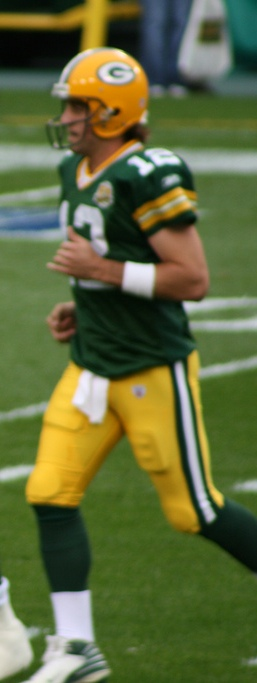 Aaron Rodgers in pre-game warmups at the Green Bay Packers vs. Philadelphia Eagles game, 9/9/07 at Lambeau field.